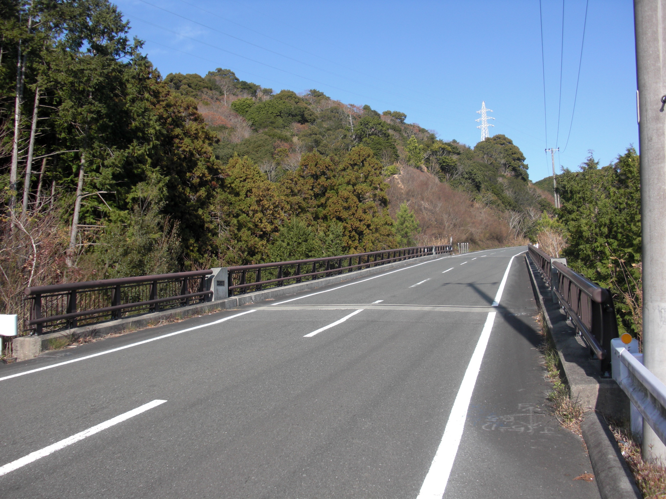 The Nozomi Bridge on the Mie Prefectural Road Route 112 in Hamajimacho Hiyamji, Shima City